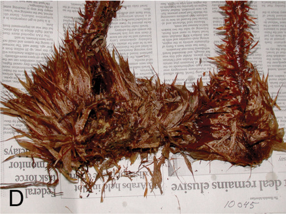 Dryopteris macropholis, rhizome and stipe bases (Hiva Oa, Wood 10045)